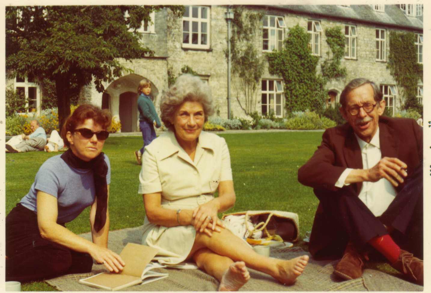 Authors Joan Aiken, Kaye Webb and artist Stuart Ray, Dartington Summer School of Music, August 1972